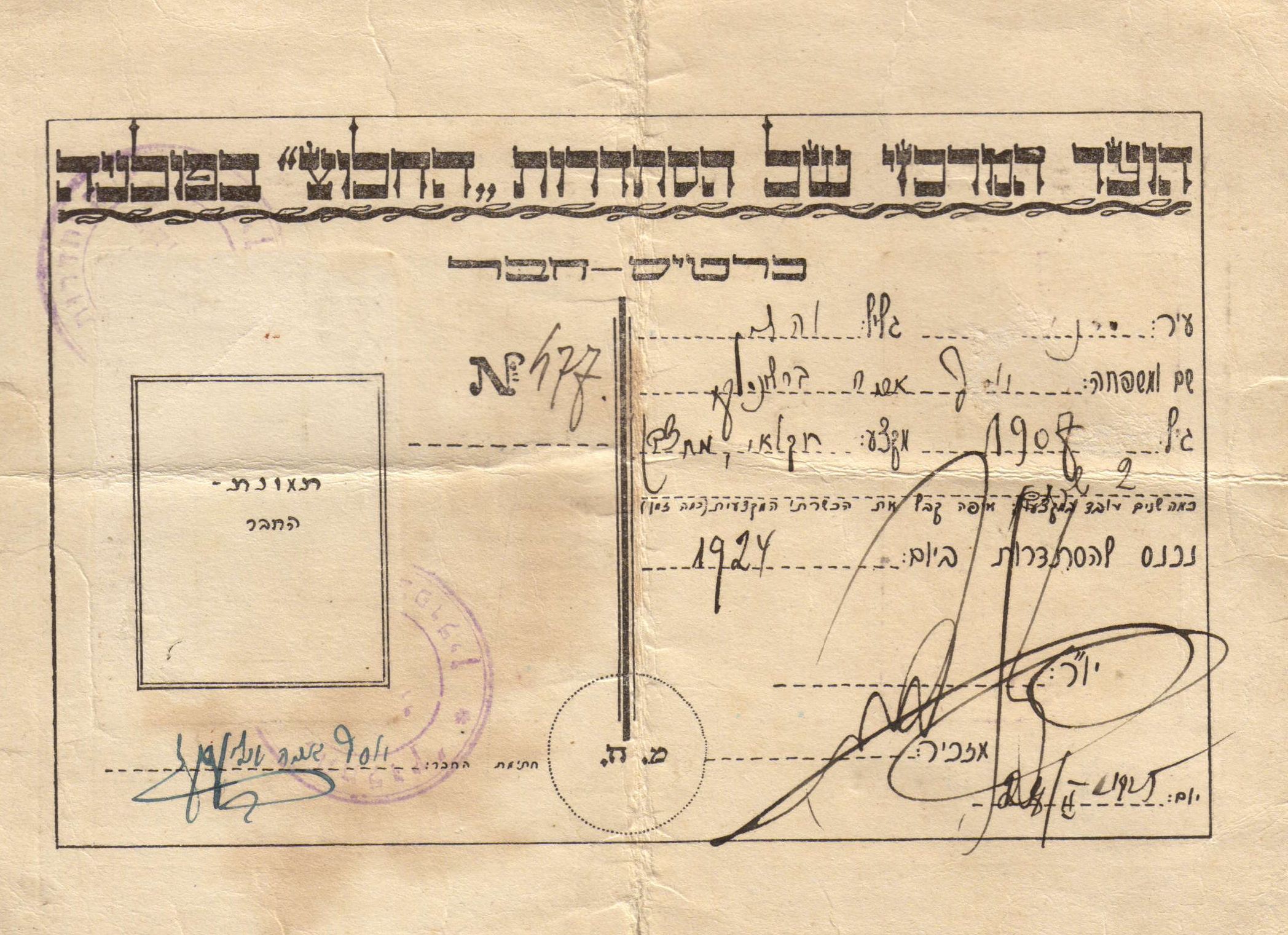 HeHalutz movement, Poland